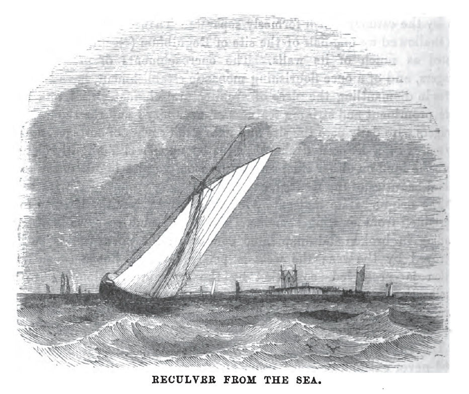 A 19th-century drawing of Reculver viewed from the sea